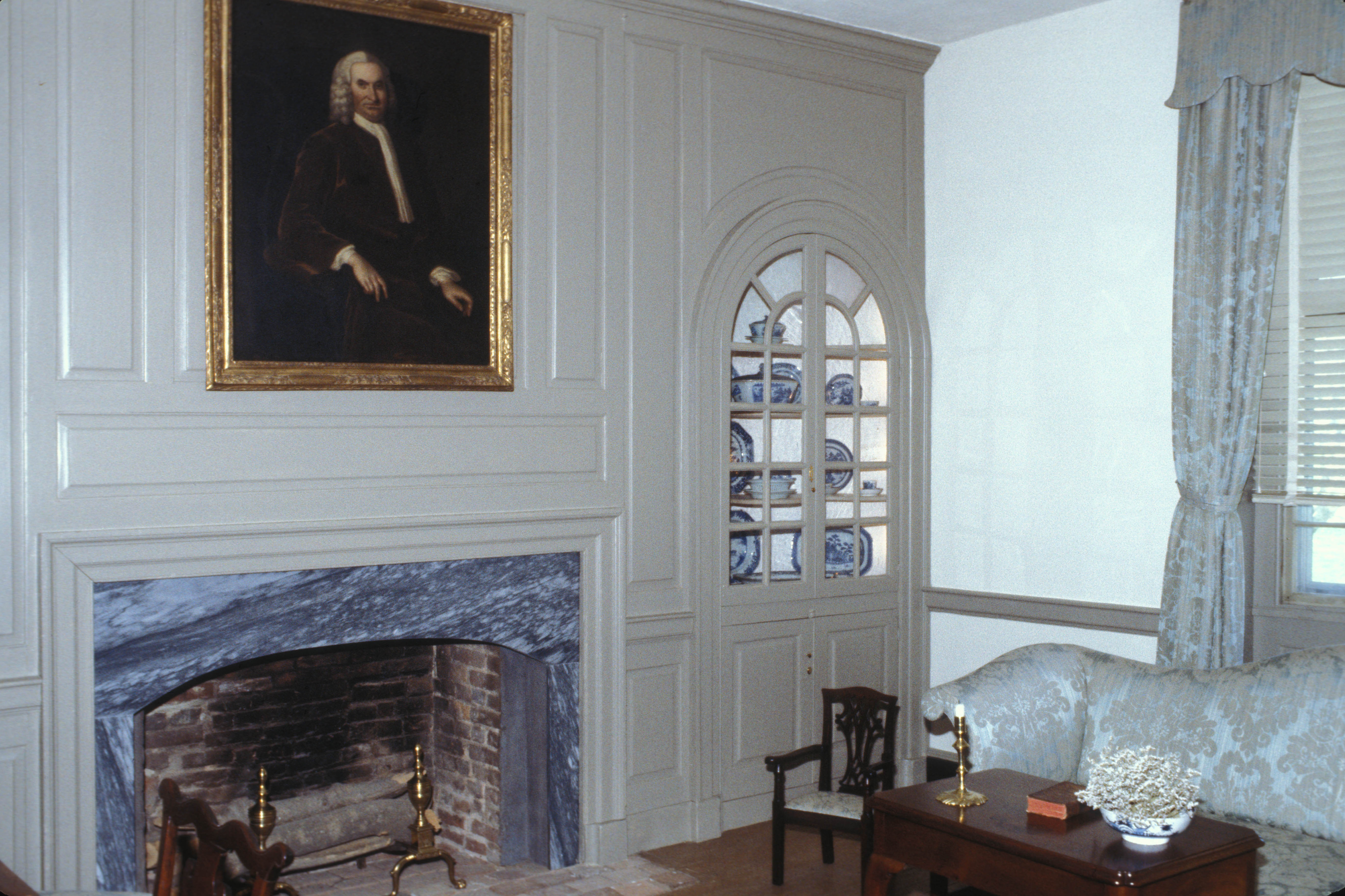 LOCATED SOUTHWEST OF DOVER ON THE ST. JONES RIVER. THE HOUSE WAS CONSTRUCTED IN 1740 BY JOHN’S FATHER, SAMUEL, BUT WAS GUTTED BY FIRE IN 1804. JOHN DICKINSON WAS KNOWN AS "THE PENMAN OF THE REVOLUTION" SITE IS NOW A NATIONAL HISTORIC LANDMARK